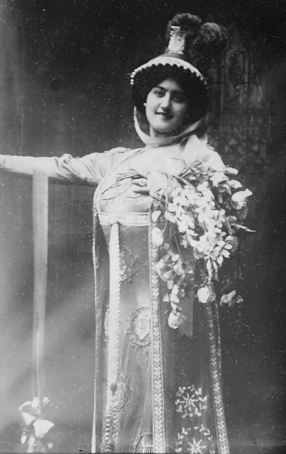 Italian opera singer Carmen Melis (1885-1967) as Tosca